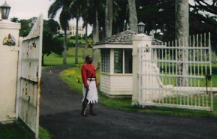 Guard outside the presidential palace in Suva, Fiji. I took this photo in 2003.